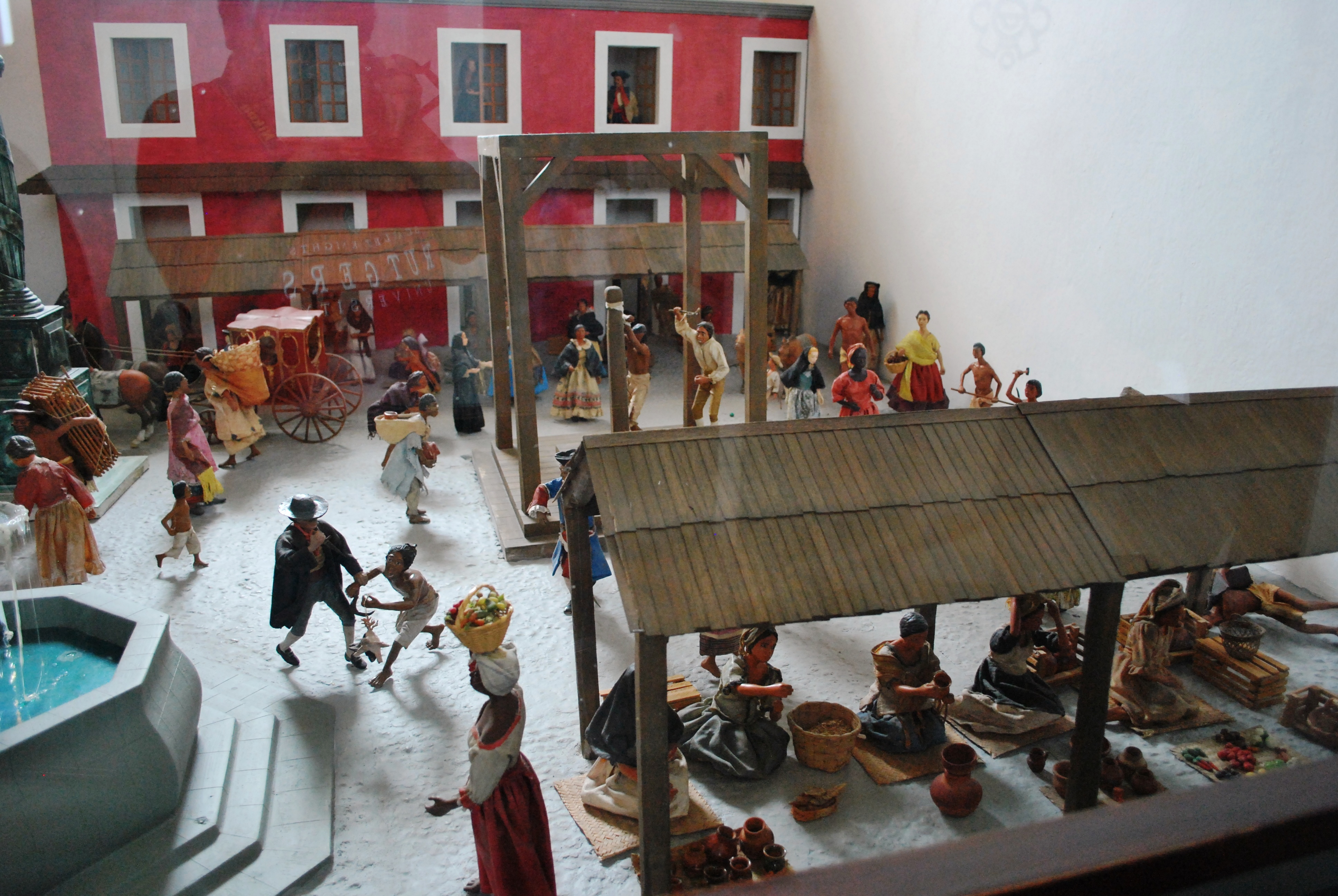 Model of Tepotzolan's market during colonial times on display at the Museo Nacional del Virreinato in Tepotzotlan in Mexico State